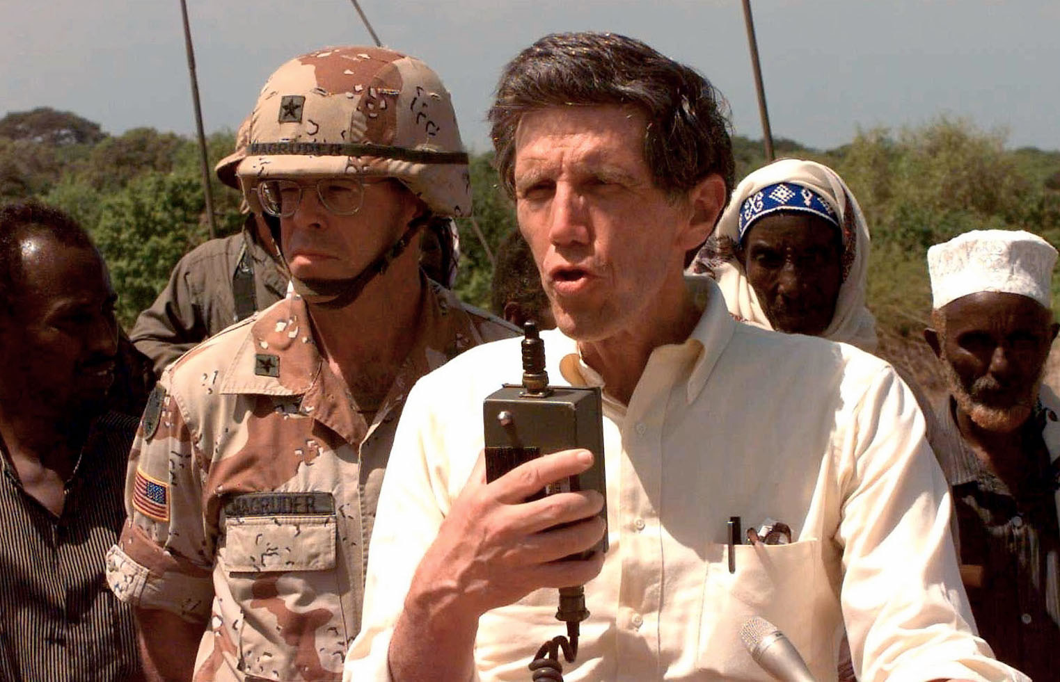 Special Envoy to Somalia, Ambassador Robert Oakley, is seen from the chest up, facing the camera and speaking to a group of Somalis over a public address system. Behind him and to the left is US Army BGEN Lawson W. Magruder III, Vice Commander, 10th Mountain Division (Light), in Somalia as the Commander of Combined Task Force Kismayo. Somali civilians stand in the background. This mission is in direct support of Operation Restore Hope.